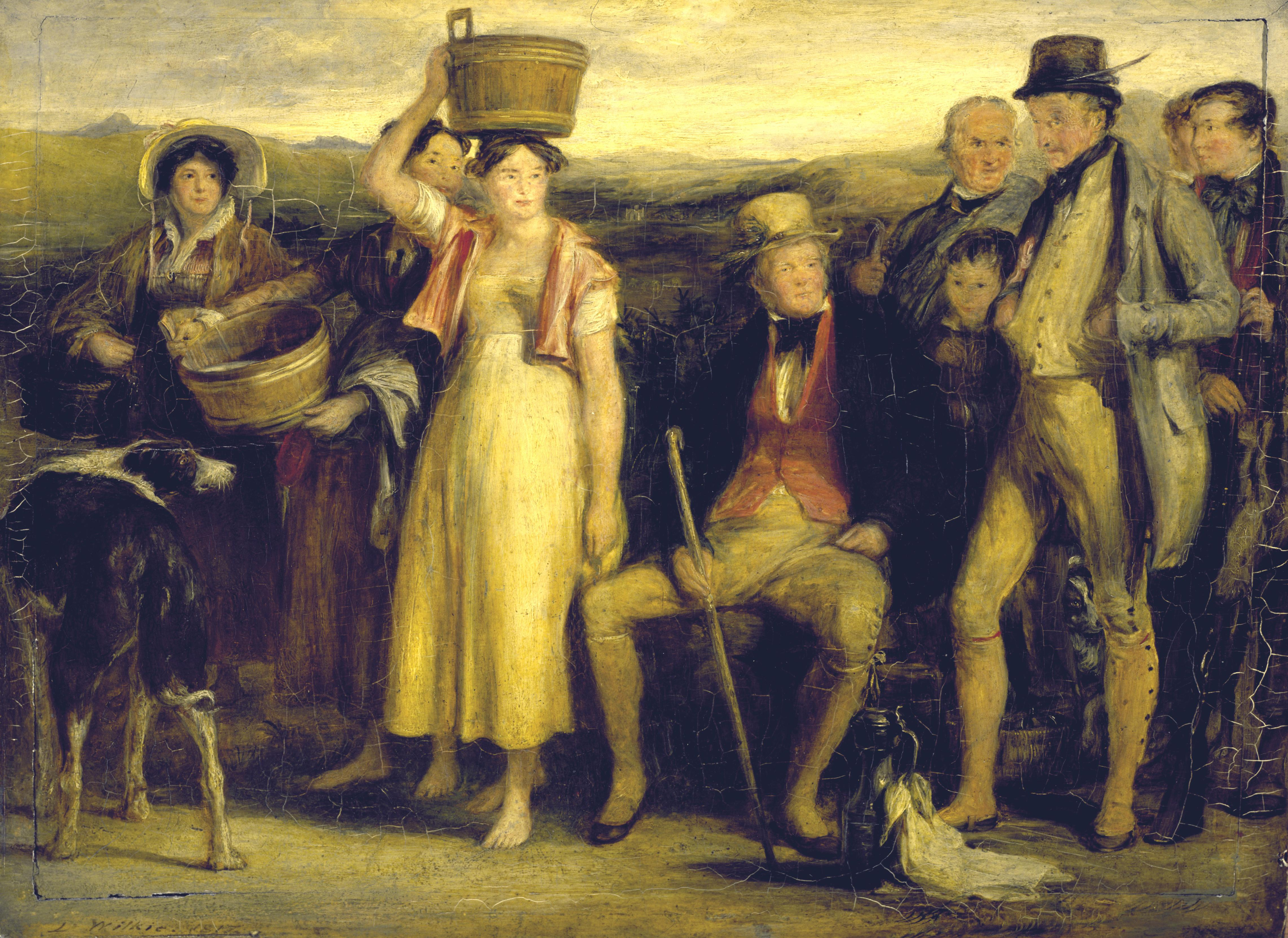 1817. In the centre Sir Walter Scott is seated on a bank; on his left are captain (afterwords Sir) Adam Ferguson, Mr Walter Scott, (afterwords Sir Walter,Lt Col of the 15th Hussars) and Mr Charles Scott, behind them is Thomas Scott (Scott's shepherd and Uncle). On Scott's far right, Lady Scott dressed as a cottage matron, with miss Anne Scott and in front is Miss Sophia Scott (afterwords Mrs Lockhart) Close by her is Sir Walter Scott's famous deerhound "Maida" (named after the battle where his brother fought), on the other side between Ferguson's legs is Scott's terrier "Ourisk" named after a Scottish Goblin).